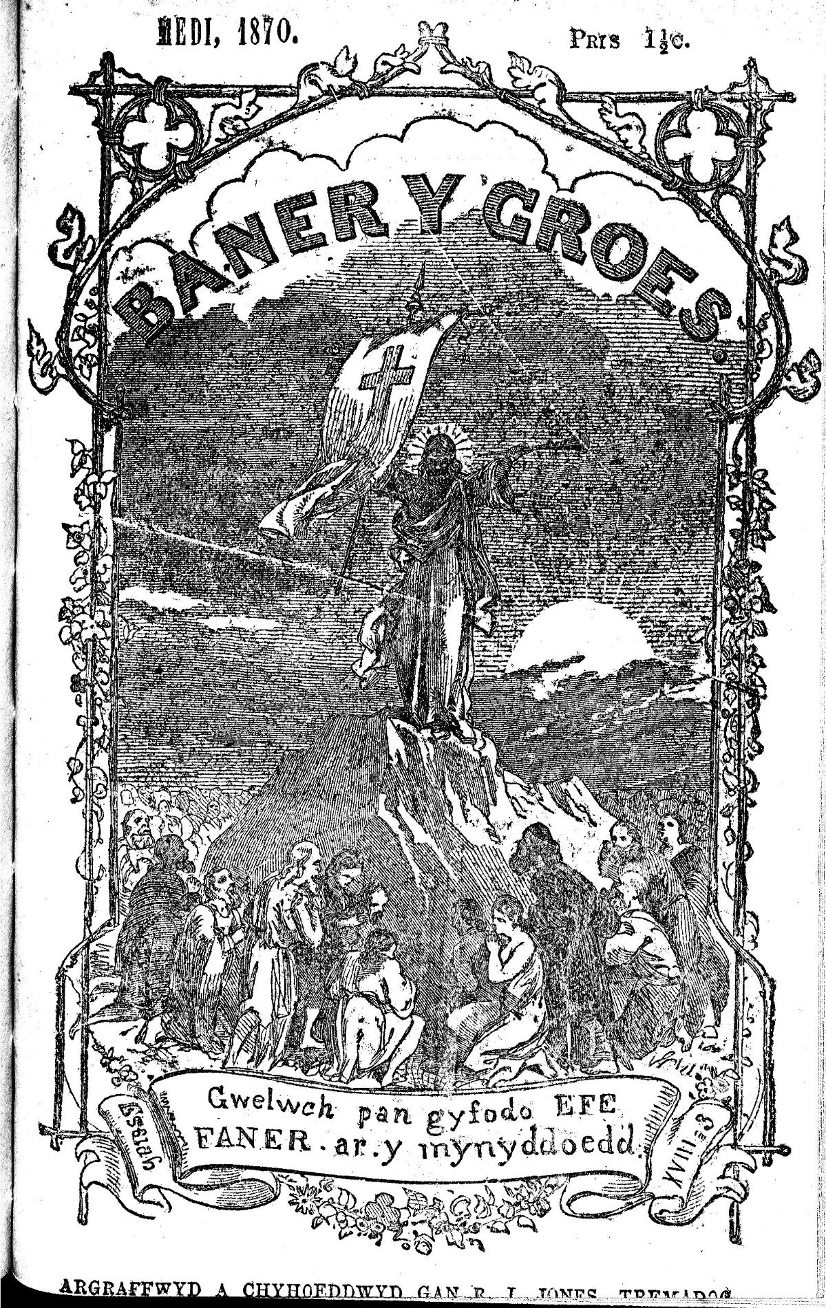 A monthly Welsh language religious and general periodical for the children and young people of the Established church. The periodical was the Oxford Movement's organ in Wales and the cleric and antiquarian, John Williams (Ab Ithel, 1811-1862), who had been educated at Jesus College, Oxford, was its first editor. Following the periodical's resurrection in 1870, the pharmacist, author and printer, Robert Isaac Jones (Alltud Eifion, 1815-1905) became the periodical's editor.